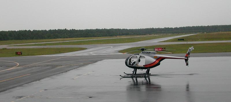 Plymouth Municipal Airport in Western Plymouth, Massachusetts